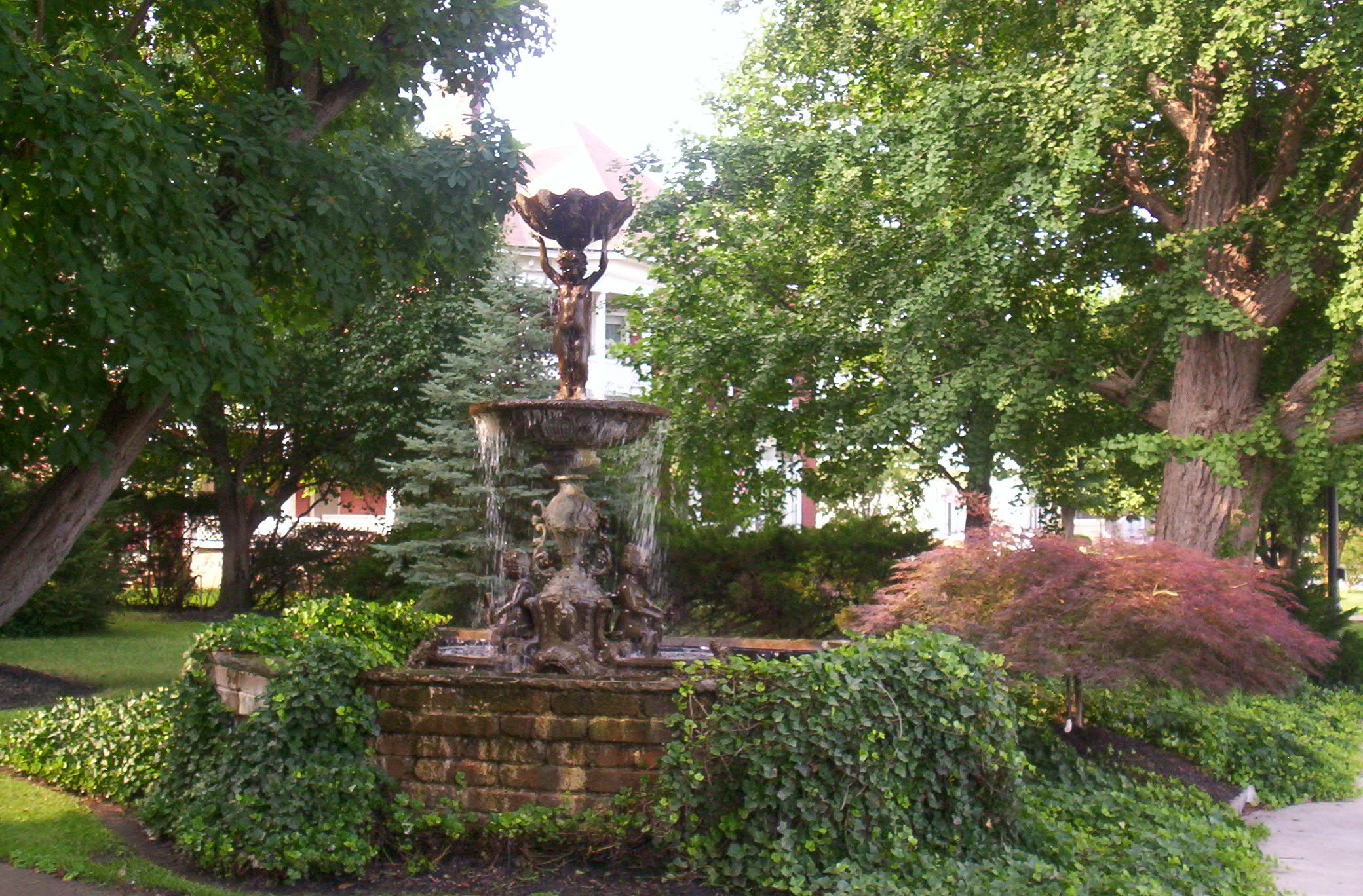 FOUNTAIN AT THE GUTHRIE-KENTUCKY CASTLE